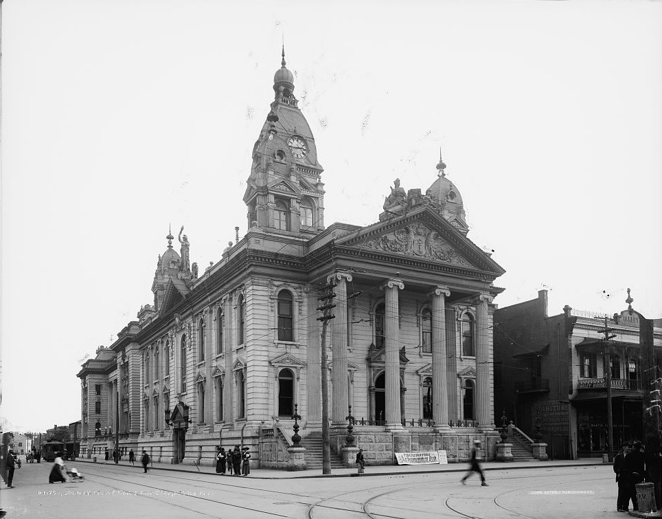 Original description: County court house and jail, Mobile, Ala. Additional description: Built by Rudolph Benz in 1889, hurricanes in 1906 and 1916 would remove its clock and much of its statuary. It is already missing at least one standing "Goddess of Liberty" over the main Government Street portico in this image, although one is visible on the Royal Street side gable. It was demolished in the 1950s and a new courthouse was built on the site. That new courthouse has also been demolished, as of 2007.